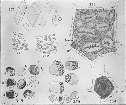 Crystalloids and globoids. Caption in source: Fig. 349.—Aleurone grains from the Castor bean; a, a grain viewed in direct transmitted light, showing a single crystalloid and globoid. b, the same grain in indirect light. showing its ellipsoidal shape. c. the same grain viewed on end. the globoid toward the top. d. a grain viewed in direct light, showing a crystalloid and three globoids. e, the same grain in a diﬁerent position. showing several globoids. i, two grains each with a globoid but no crystalloid. g, a grain with crenate or pitted surface and no crystalloid visible. h, a grain with large crystalloid and numerous small globoids. Fig. 350.—Aleurone grains from the Brazil nut. Each grain usually con tains one crystalloid and one globoid or a globoidal mass. The envelope is very t m. Fig. 351.—Aleurone grains from Fennel fruit. Globoids are seldom visible, but rosettes of calcium oxalate crystals are present in all but the larger grains. Fig. 352.—Aleurone grains from Almond. The smaller grains each contain one or more very small globoids. while the larger grains sometimes contain a ,rosette of calcium oxalate crystals. ' ' Fig. 353.—Aleurone grains from Nutmeg. The crystalloids are very per fectly formed. The globoid is attached at one corner of the crystalloid by a very thin envelope. Fig. 354.—A cell from the aleurone layer of Wheat. The aleurone is in very small angular grains, frequently called “amorphous” aleurone, and sur rounds the denscr nucleus. Fig. 355.-—A cell from Pea seed inclosing: a, the nucleus; b, ectoplasm; c, starch grains; d, small aleurone grains.